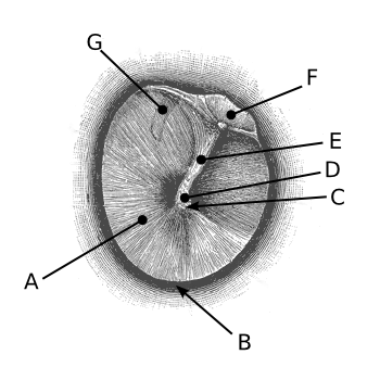 Removed the original labels and added my own using letters. A pars tensa B annulus fibrosa C umbo D Handle of the malleus E Long arm of the malleus F pars flaccida G Long process of the incus